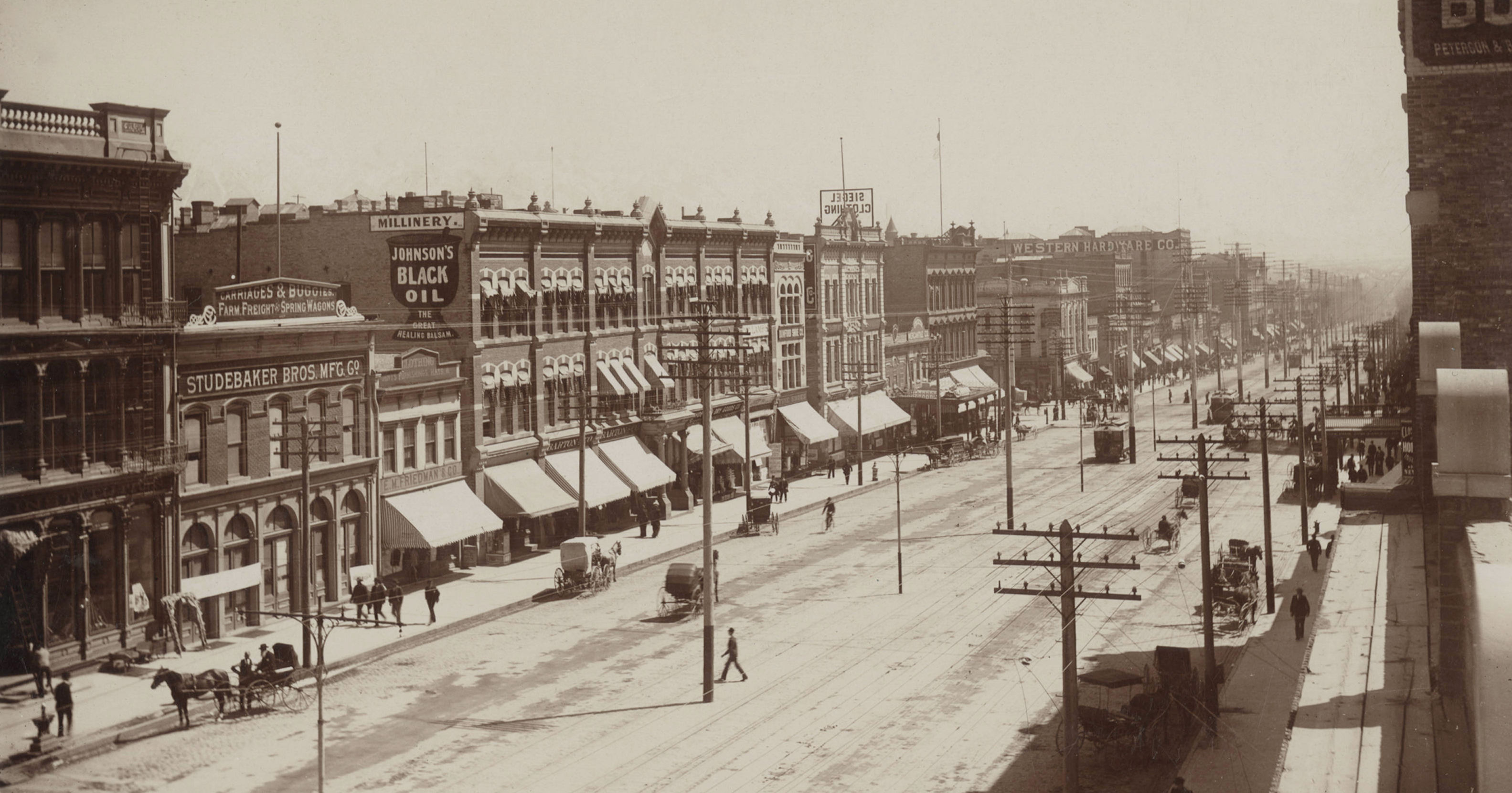 The east side of Main Street (also known as East Temple Street) in Salt Lake City, Utah. The photo was taken in the 1890s by photographer Charles Roscoe Savage.